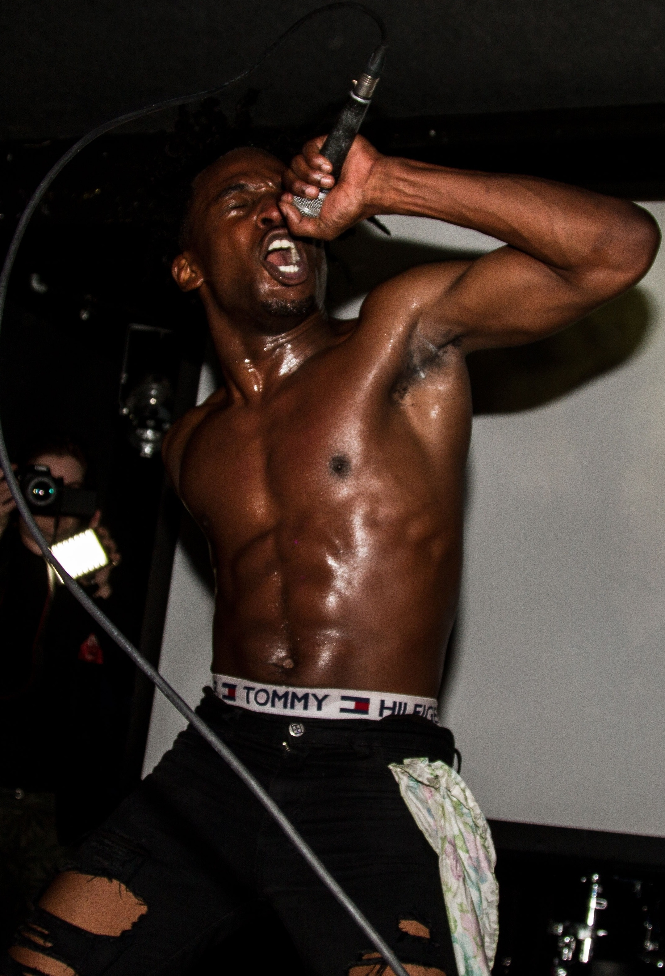 Jazz Cartier performing in May 2015